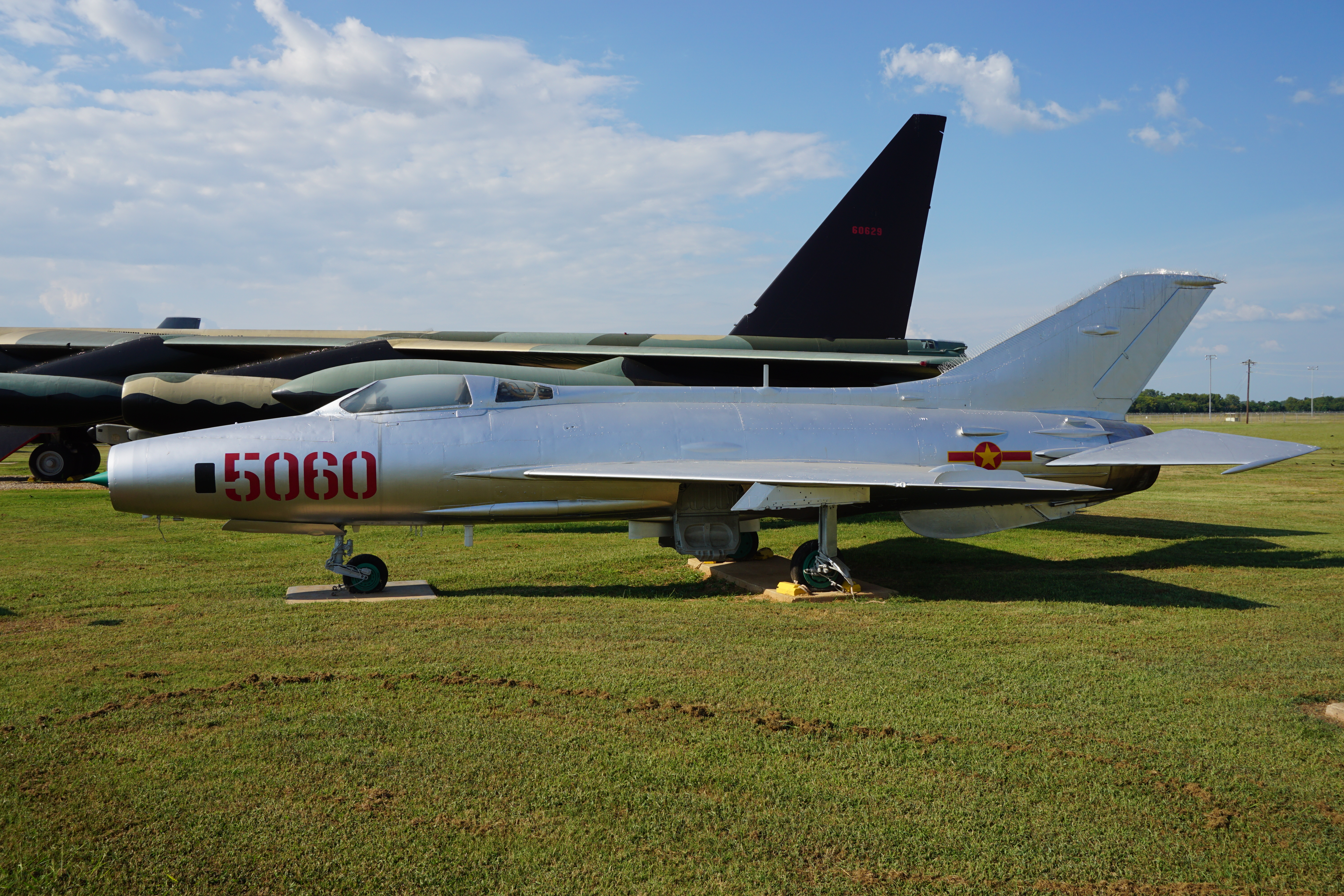 A Mikoyan-Gurevich MiG-21F on display at the Barksdale Global Power Museum at Barksdale Air Force Base near Bossier City, Louisiana (United States).